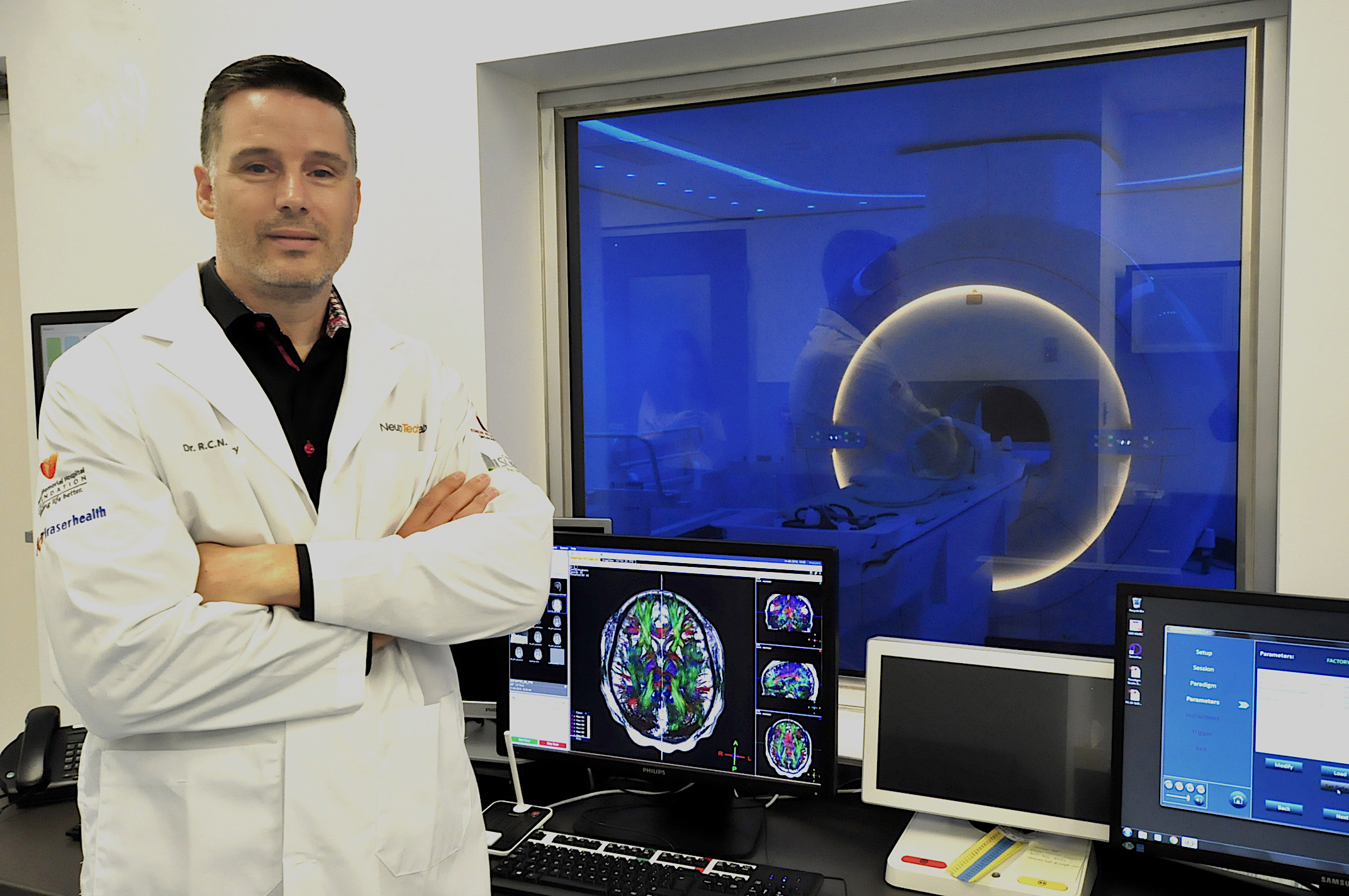 Neuroscience, MRI, magnetic resonance imaging, brain imaging, brain